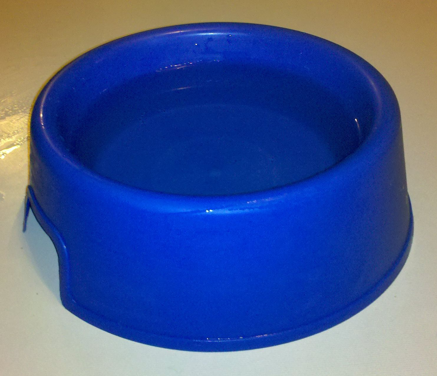 Large blue water bowl for dogs, half full of water